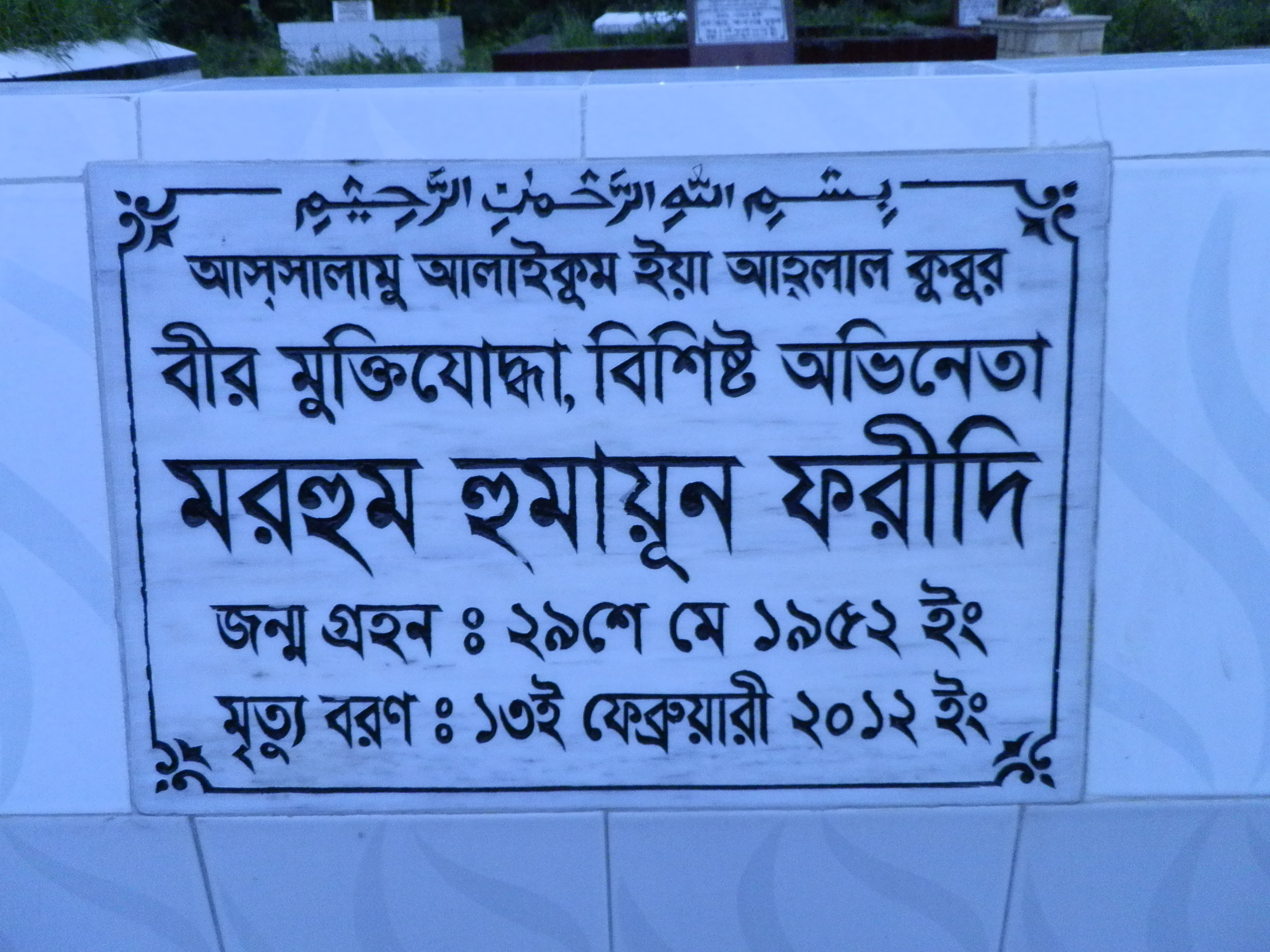 Film and TV actor Humayun Faridi